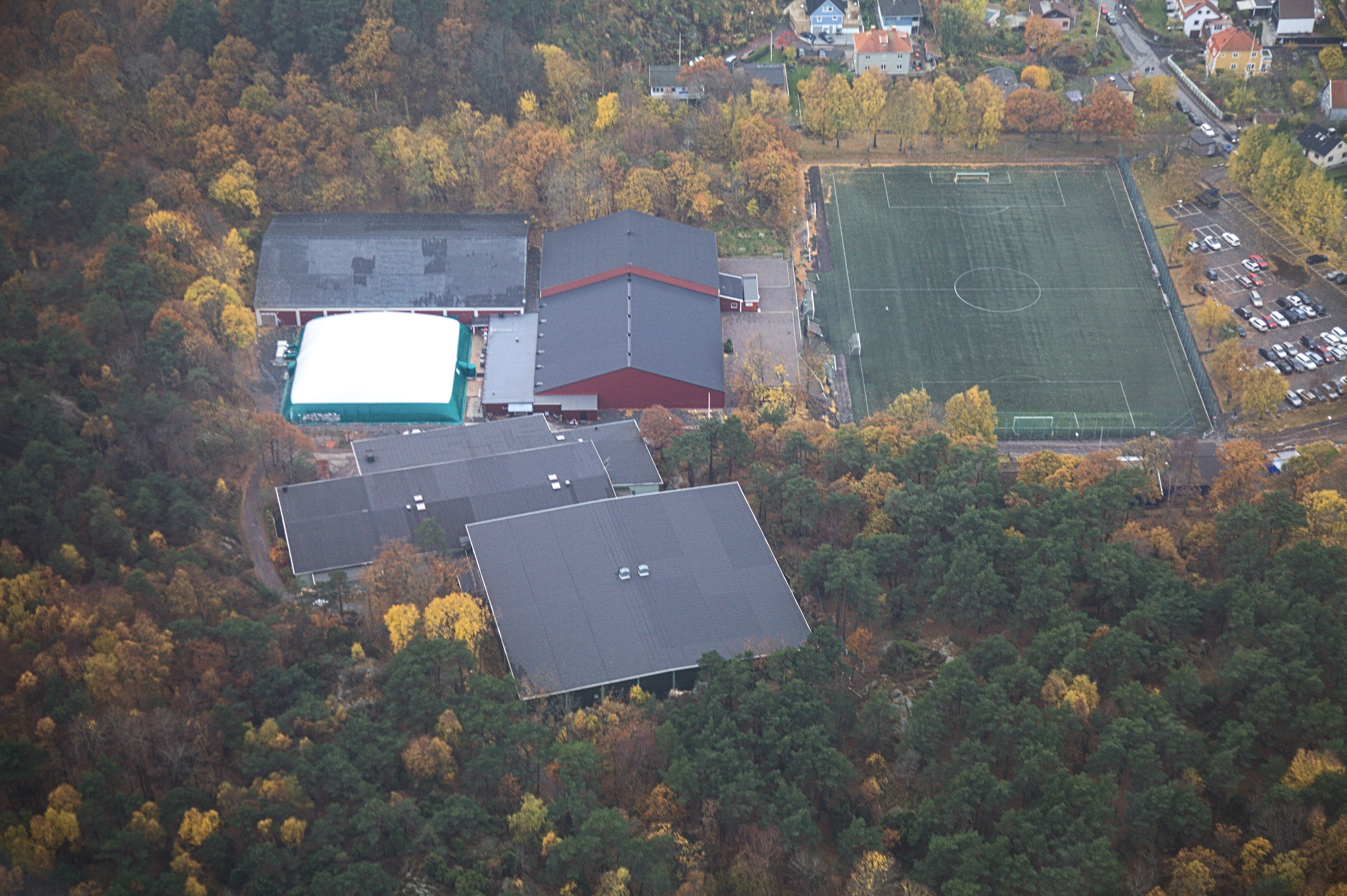 Photo taken on a helicopter over Gothenburg